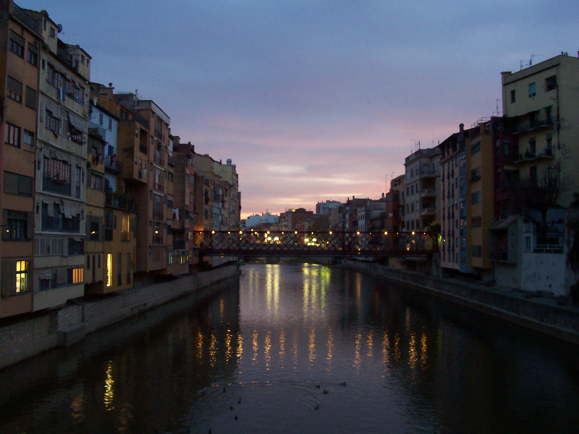 The Onyar river and the Pont de les Peixeteries Velles (Bridge of the Old Fishmongers) (constructed by Eiffel), Girona, Catalonia, at night.